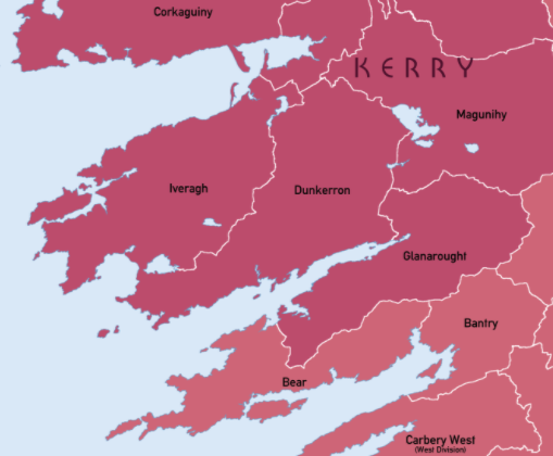 Puce map of Baronetcies in County Kerry Ireland